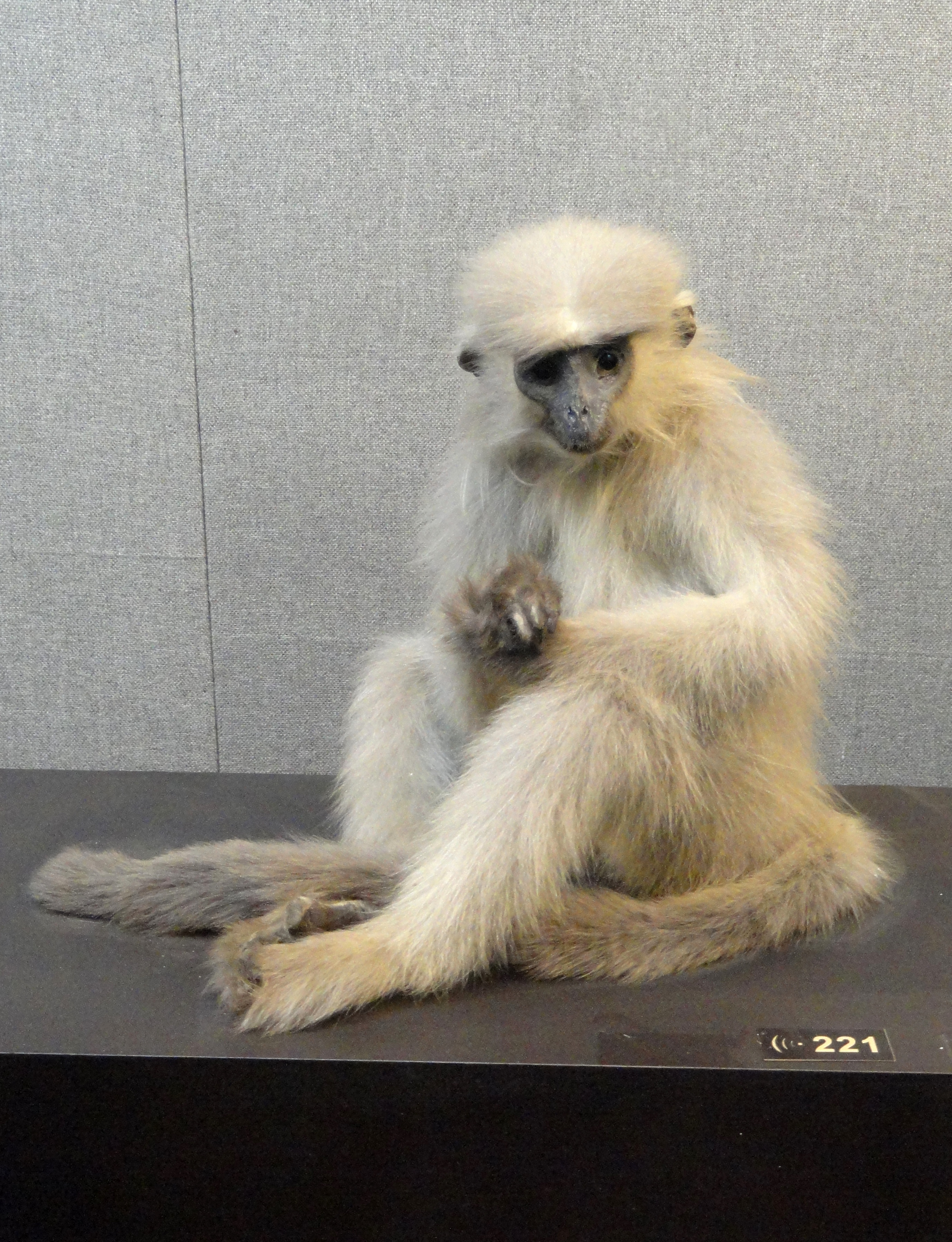 Taxidermy exhibit in the Kunming Natural History Museum of Zoology (昆明动物博物馆), Kunming, Yunnan, China.